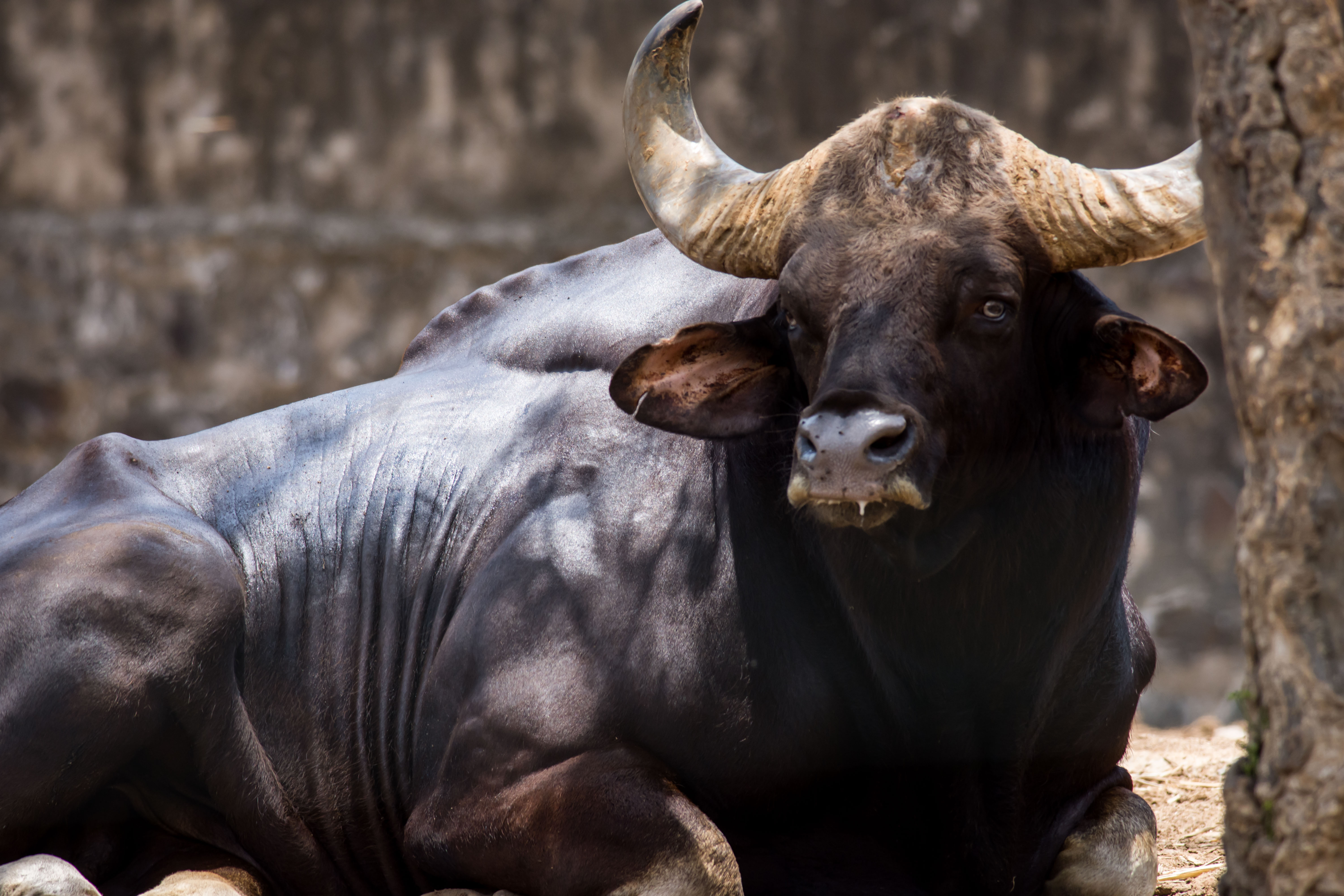 Also referred to as the Indian Bison, the gaur is a massively built animal with lethal horns and strong limbs.